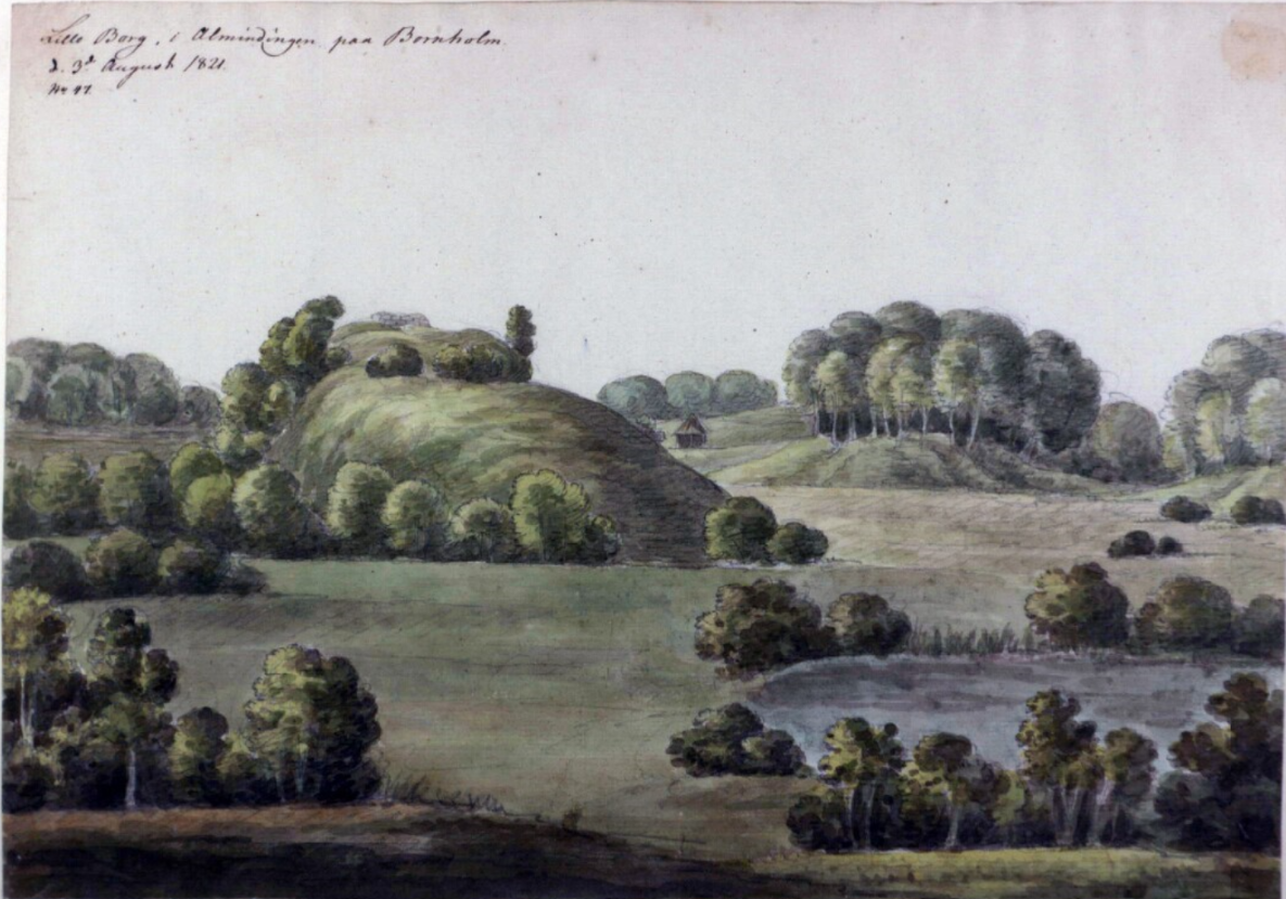 Lilleborg, i Almindingen, paa Bornholm. d. 3. August 1821. No. 47